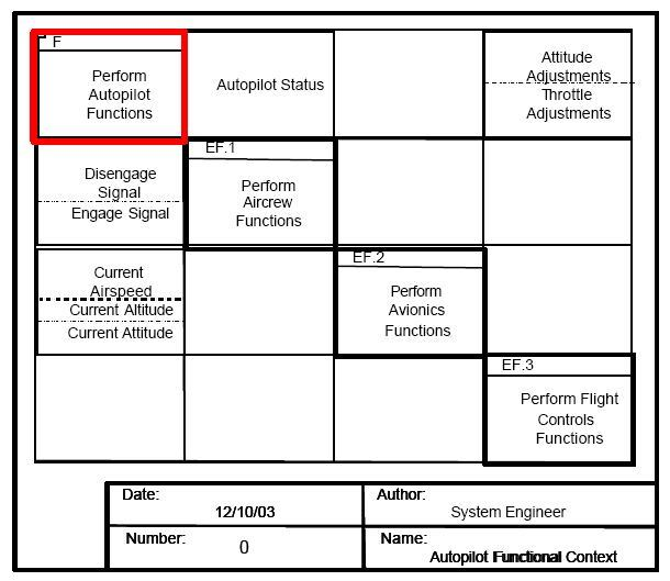 14 Autopilot Functional Context N2 Diagram